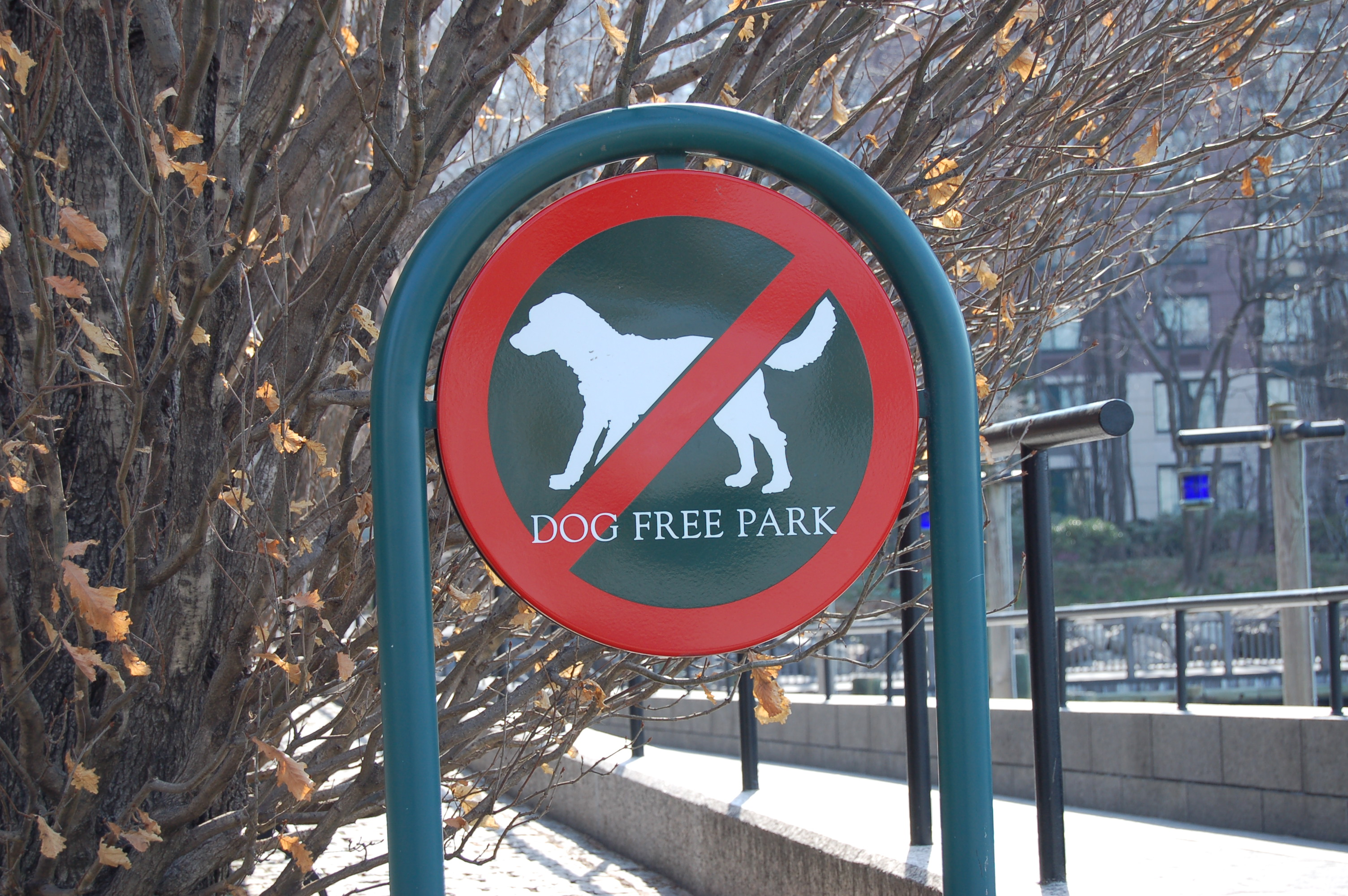 Dog free park sign from the New York City Department of Parks and Recreation in a park in New York City